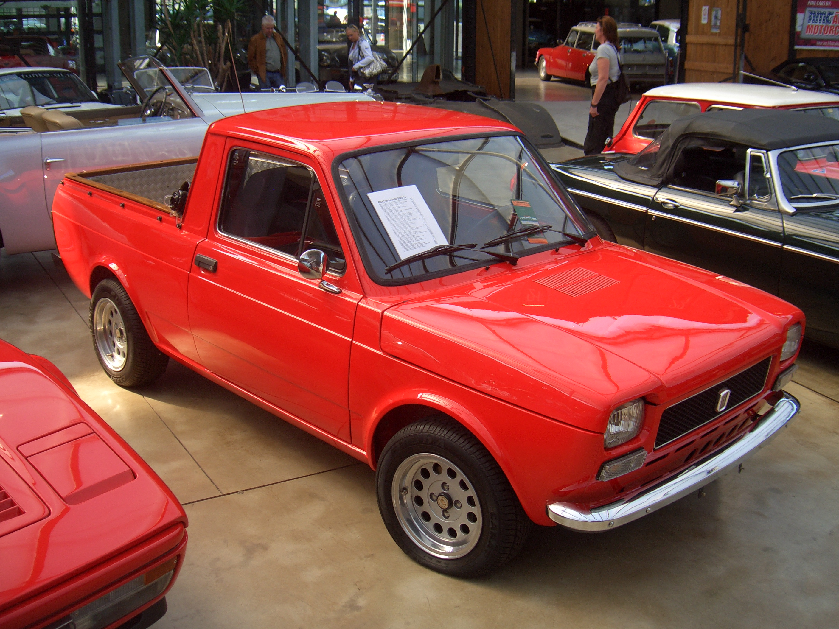 Fiat Fiorino (Mk.I) Pickup, 1983-1988, seen at CLASSIC REMISE, Duesseldorf, Germany